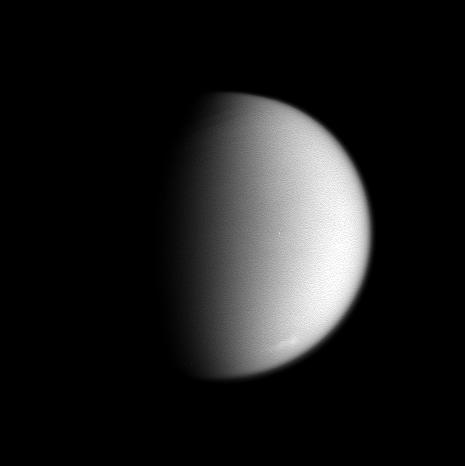 This clear-filter view of Saturn's moon Titan reveals a region of cloud activity at high southern latitudes. Titan is 5,150 kilometers (3,200 miles) across. Cassini observations have generally been consistent with Earth-based observations that indicate the south-polar fields of clouds that had been observed frequently in 2004 haven't been present in 2005. This image was taken in visible light with the Cassini spacecraft narrow-angle camera on Aug. 31, 2005, at a distance of approximately 3.3 million kilometers (2 million miles) from Titan and at a Sun-Titan-spacecraft, or phase, angle of 70 degrees. The image scale is 20 kilometers (12 miles) per pixel. North on Titan is up and rotated about 20 degrees to the left. The view has been mildly enhanced to make the cloud feature more easily visible. The Cassini-Huygens mission is a cooperative project of NASA, the European Space Agency and the Italian Space Agency. The Jet Propulsion Laboratory, a division of the California Institute of Technology in Pasadena, manages the mission for NASA's Science Mission Directorate, Washington, D.C. The Cassini orbiter and its two onboard cameras were designed, developed and assembled at JPL. The imaging operations center is based at the Space Science Institute in Boulder, Colo.